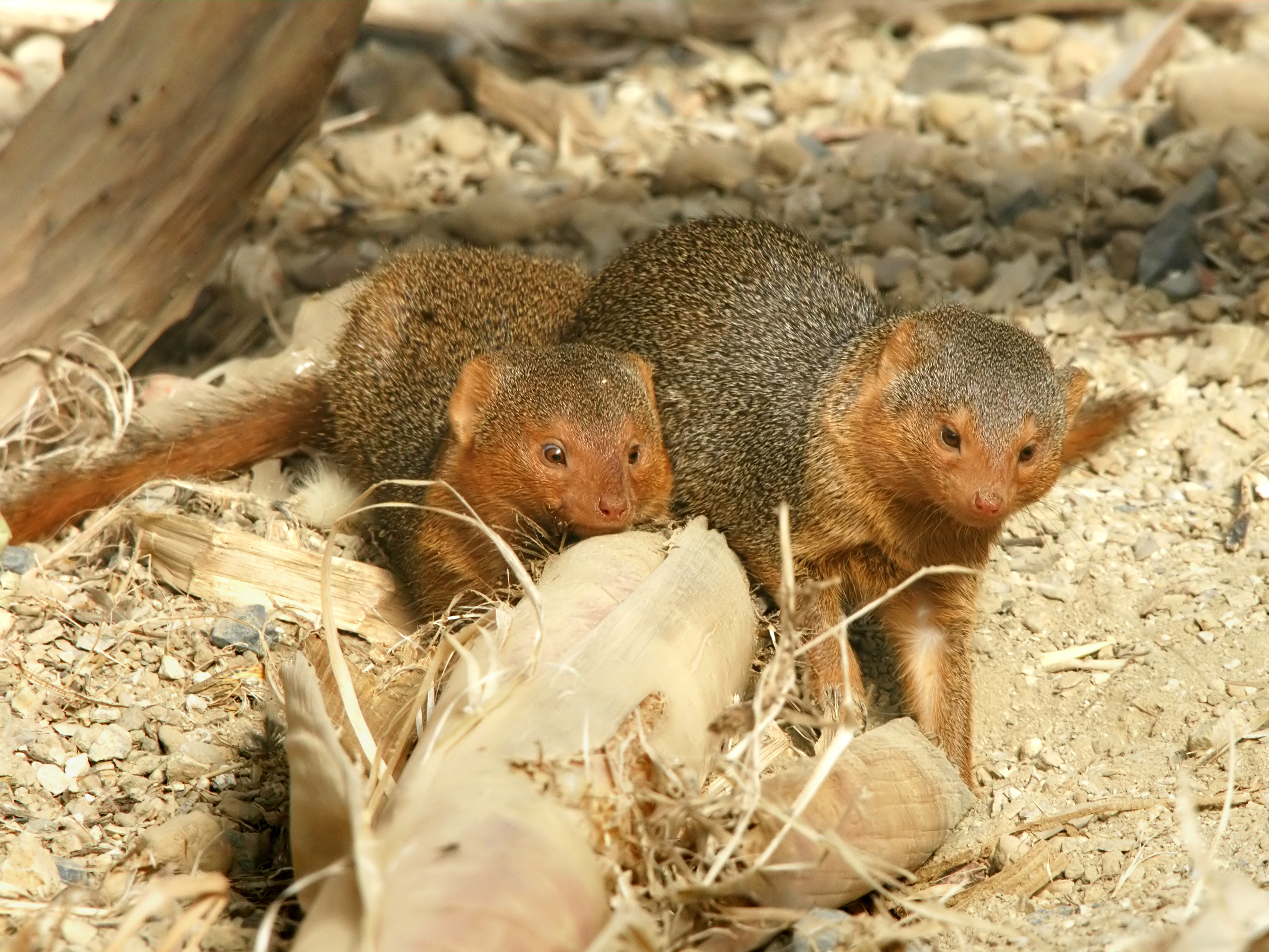 Common Dwarf Mongoose, at Pairi Daiza, Brugelette, Belgium